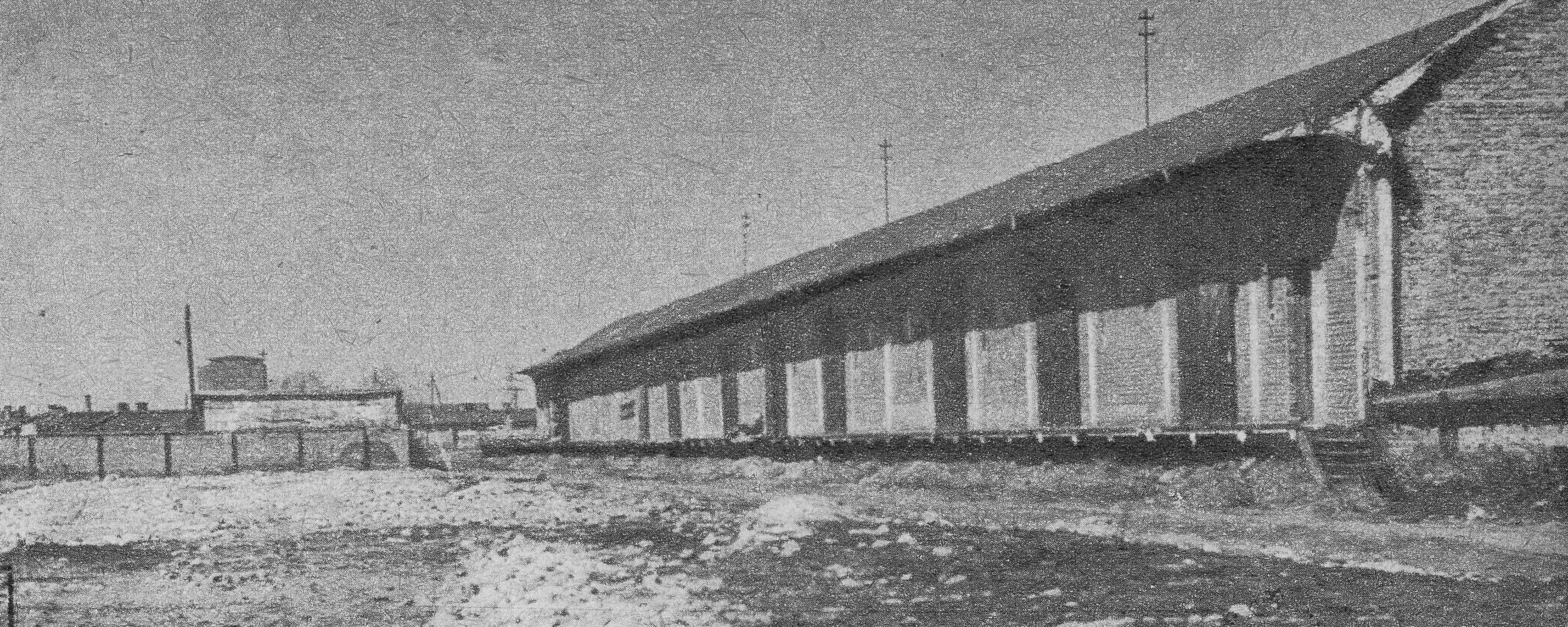 Area of former Umschlagplatz